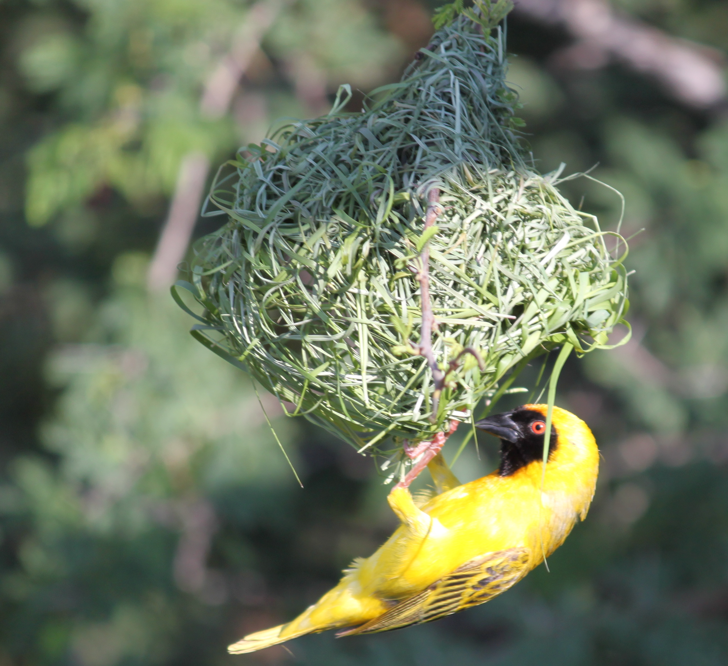 Masked Weaver Ploceus velatus, Etosha National Park, Namibia